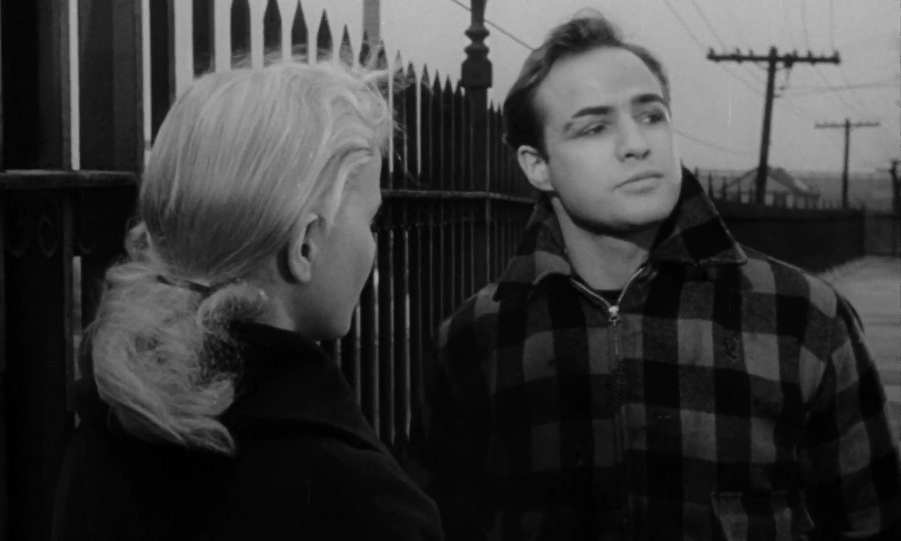 Marlon Brando and Eva Marie Saint in a screenshot from the trailer for the film On the Waterfront.